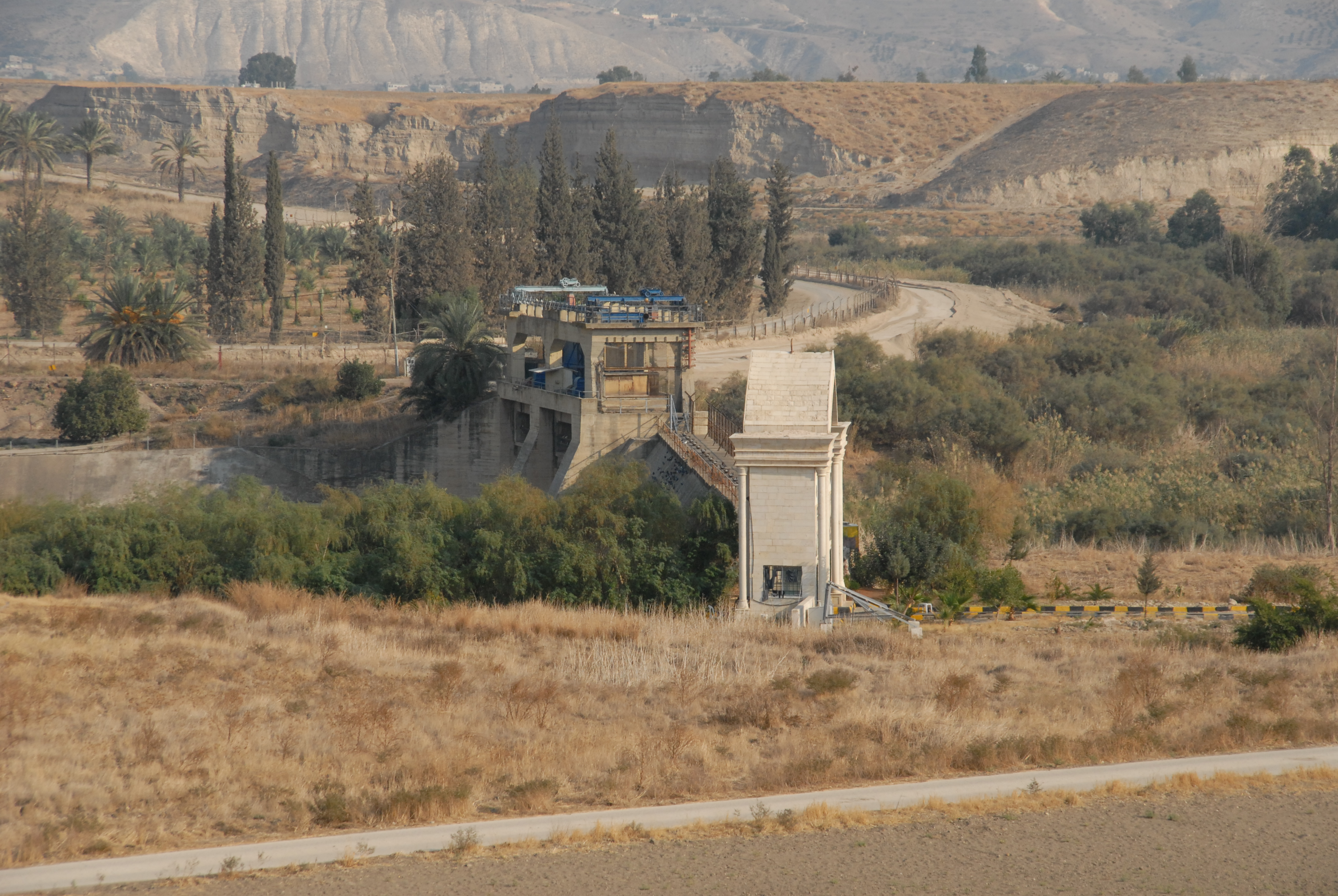 Geography of Israel